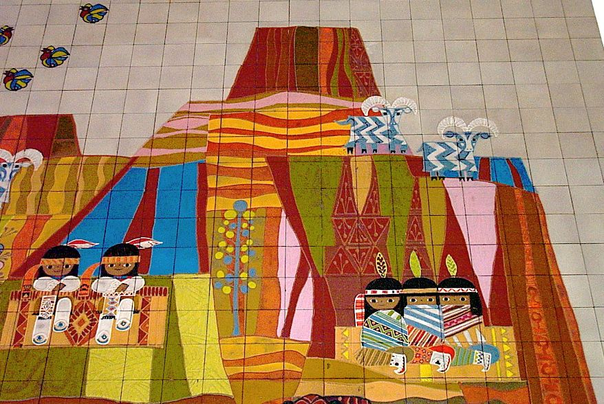 Blair, Mary (1971), "Mosaic", Contemporary Resort, Disney.